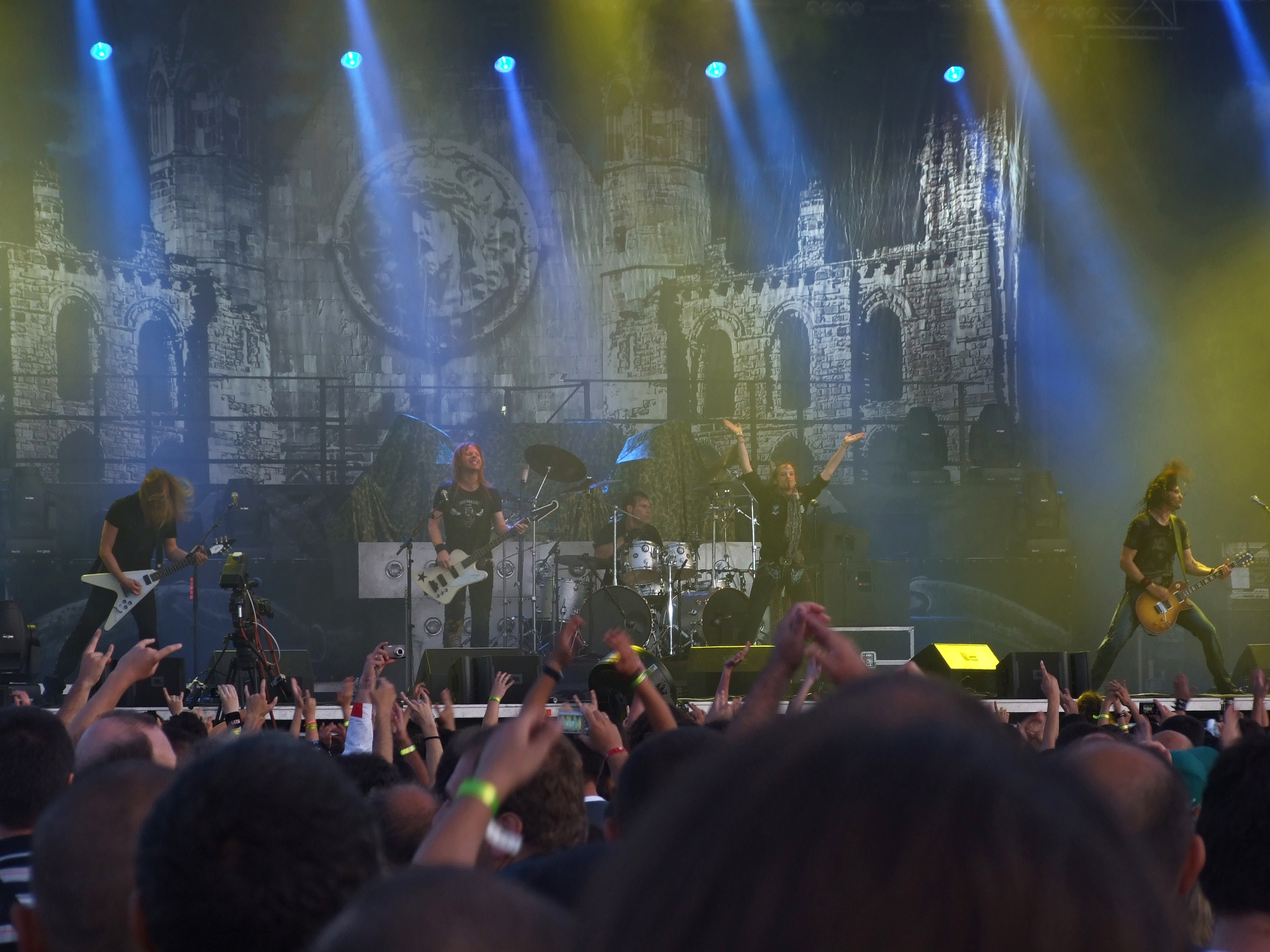 Edguy at Kavarna Rock Fest - 2 July 2009 - Kavarna, Bulgaria.